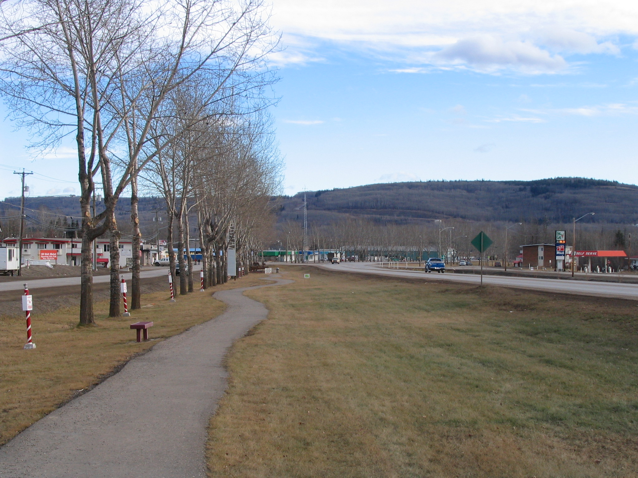 Image shows BC highway 97S on the right and North Access Road which local businesses line on the left in Chetwynd. A tree-lined walkway separates the two. Wind turbines power lights in the trees. Photograph taken by myself, Jodi MacLean (aka maclean25) in December 2005. Summary Image shows BC highway 97S on the right and North Access Road which local businesses line on the left in Chetwynd. A tree-lined walkway separates the two. Wind turbines power lights in the trees. Photograph taken by myself, Jodi MacLean (aka maclean25) in December 2005.